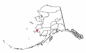 Adapted from Wikipedia's AK borough maps by Seth Ilys.